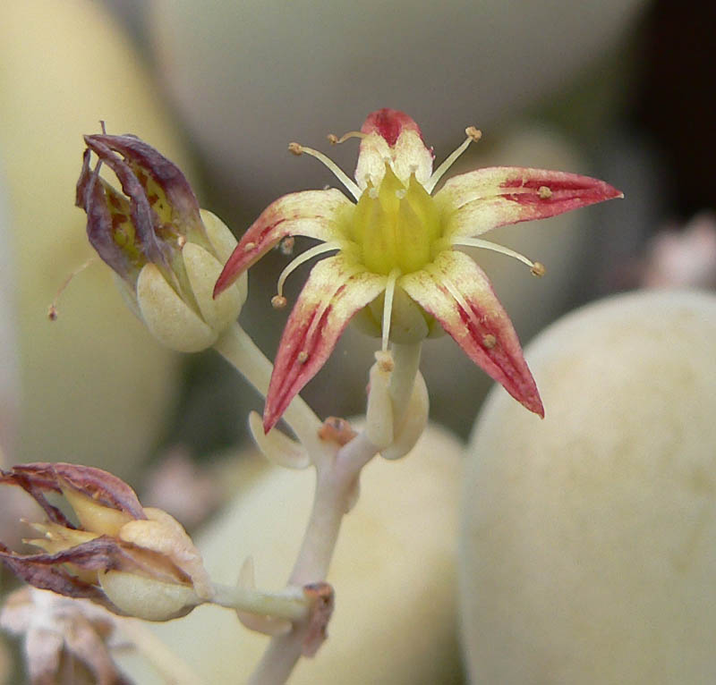 Photo of Graptopetalum amethystinum at the University of California Botanical Garden